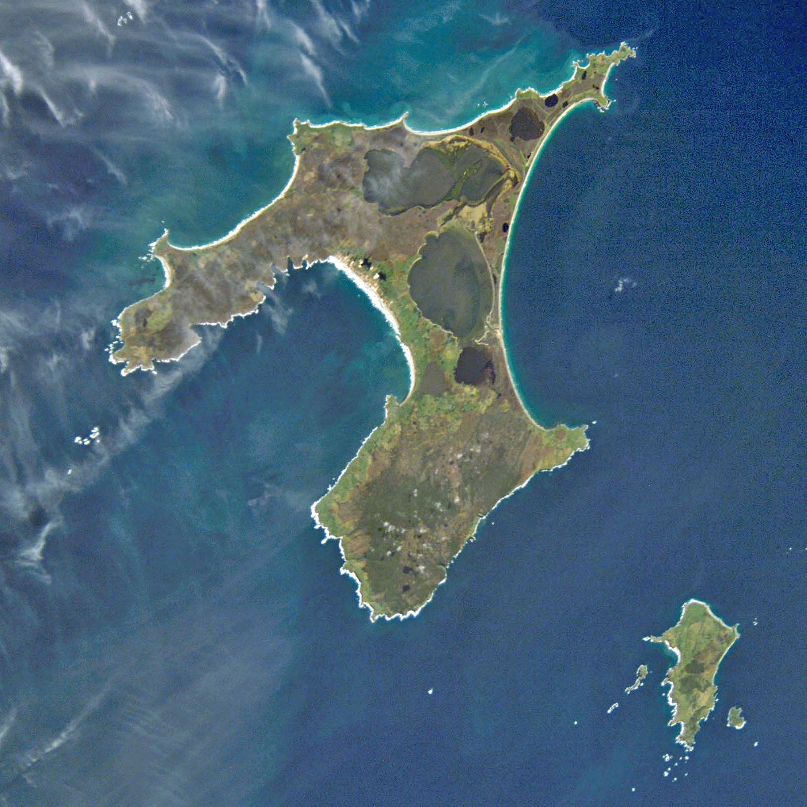 NASA astronaut image of Chatham Islands, New Zealand, in the Pacific Ocean. North is up.